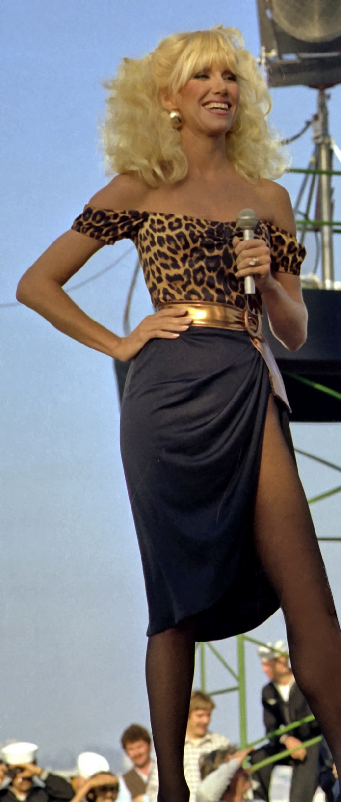 Suzanne Somers entertains the crew aboard the aircraft carrier USS RANGER (CV-61).